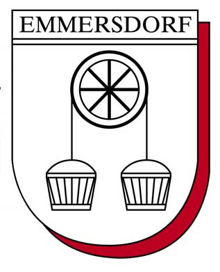 Coat of arms of Emmersdorf an der Donau, Lower Austria